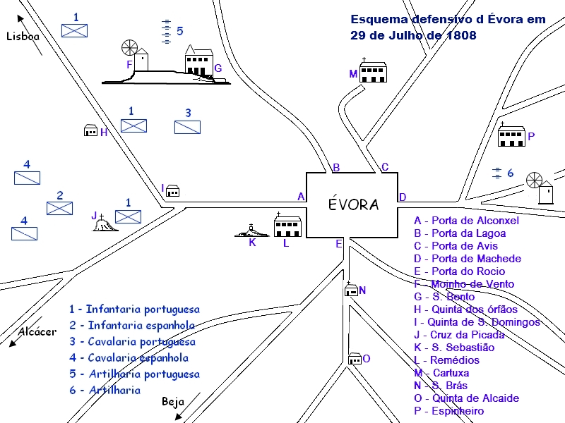 Scheme of the defense of Evora in July 29, 1808, according to a drawing done by J. C. Baker, published in the "História Popular da Guerra Peninsular" by J. J, Teixeira Botelho.